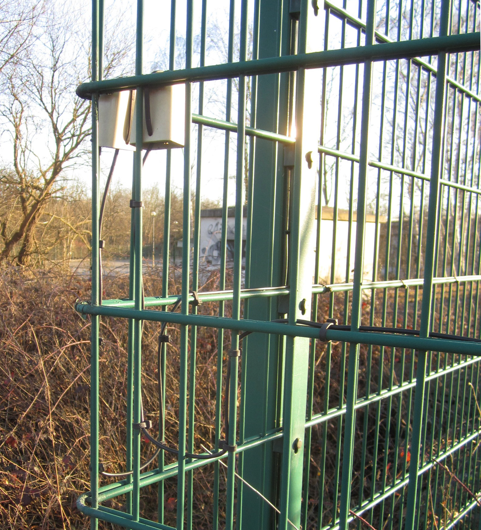 End caps of electret cable intusion detection system for fences